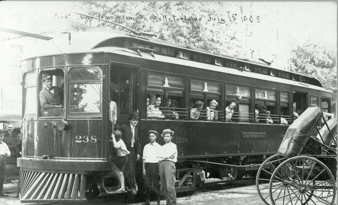 First Ohio Electric car from Lima to Bellefontaine, 1908